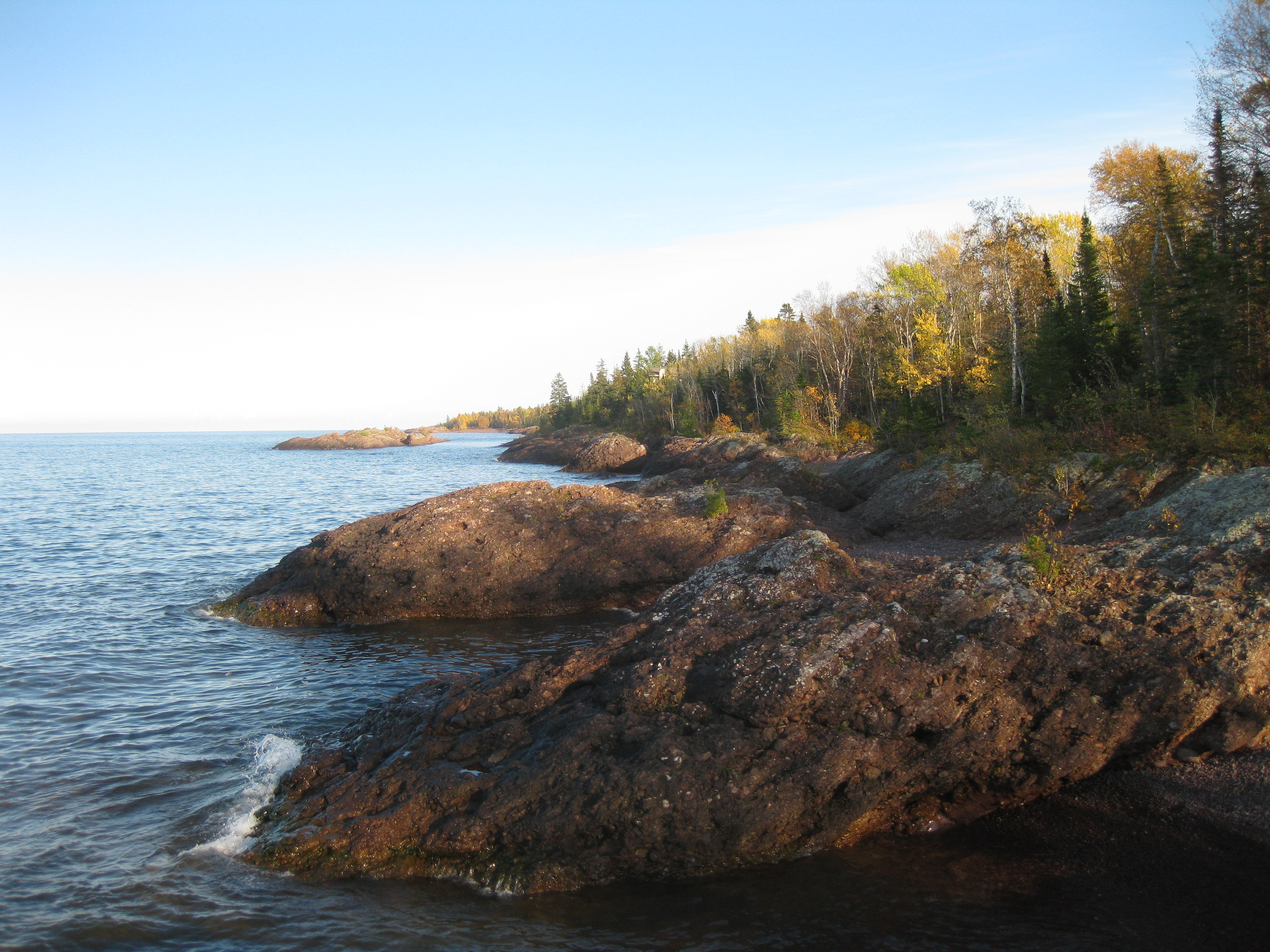 Lake Superior Coast at Copper Harbor, Michigan.